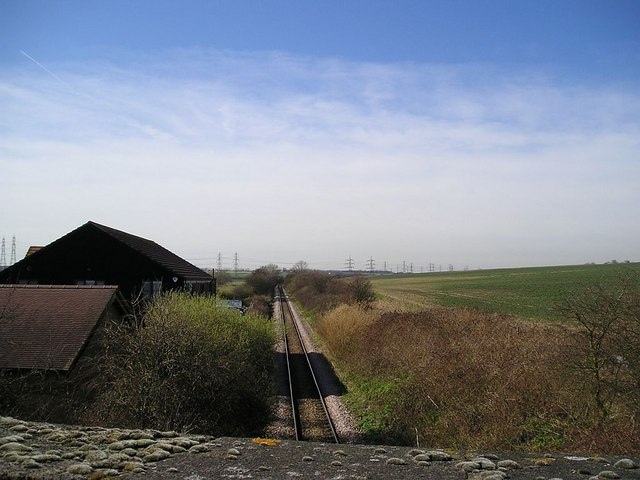 Railway line passing Beluncle Halt, Tonbridge Hill, Kent